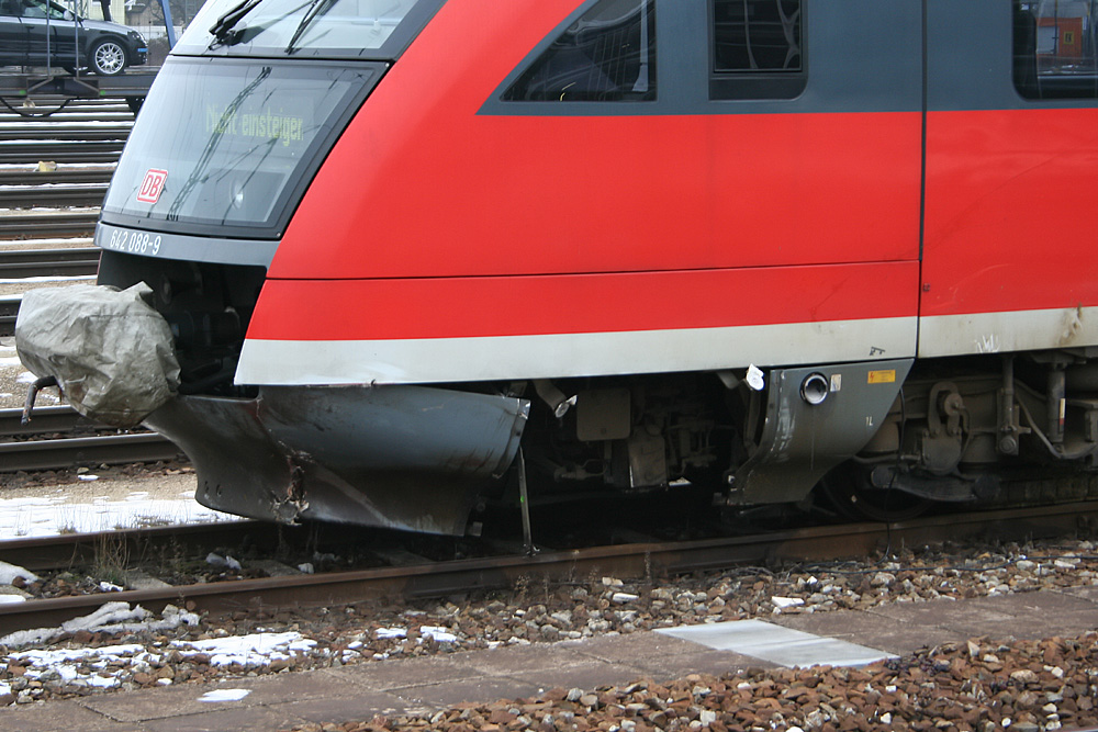 A DB class 642 trainset after it had crashed into an animal.